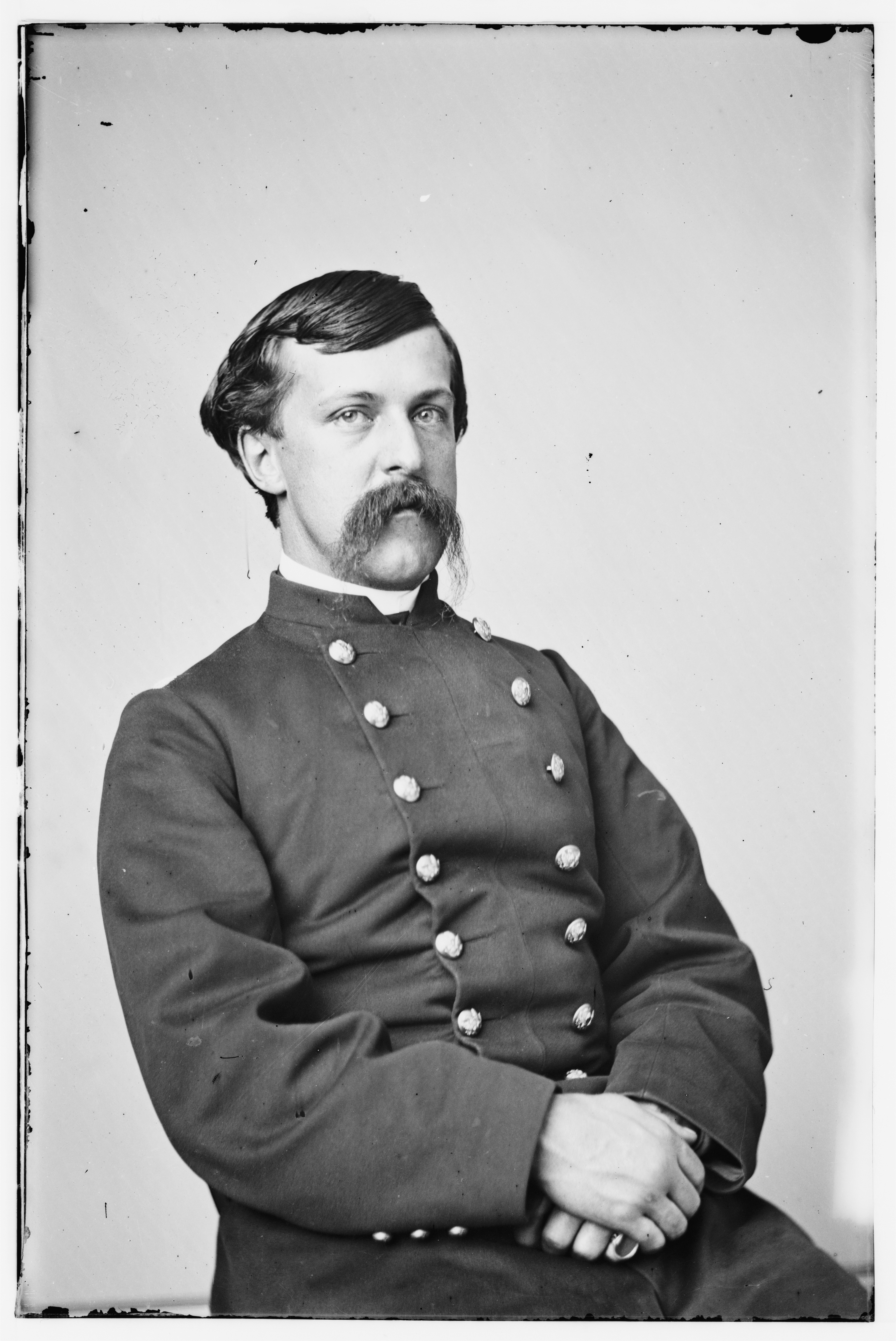 Title: Lt. Col. Townsend, 106th N.Y. Inf. Physical description: 1 negative